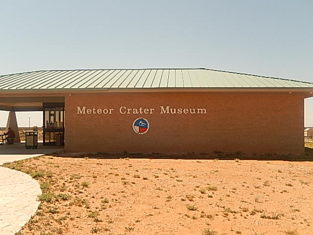 I took photo of Odessa Crater Museum building with Nikon camera.